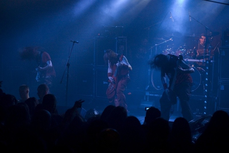 Winterfest 2009, Vader, Warszawa, Progresja, 22.01.2009